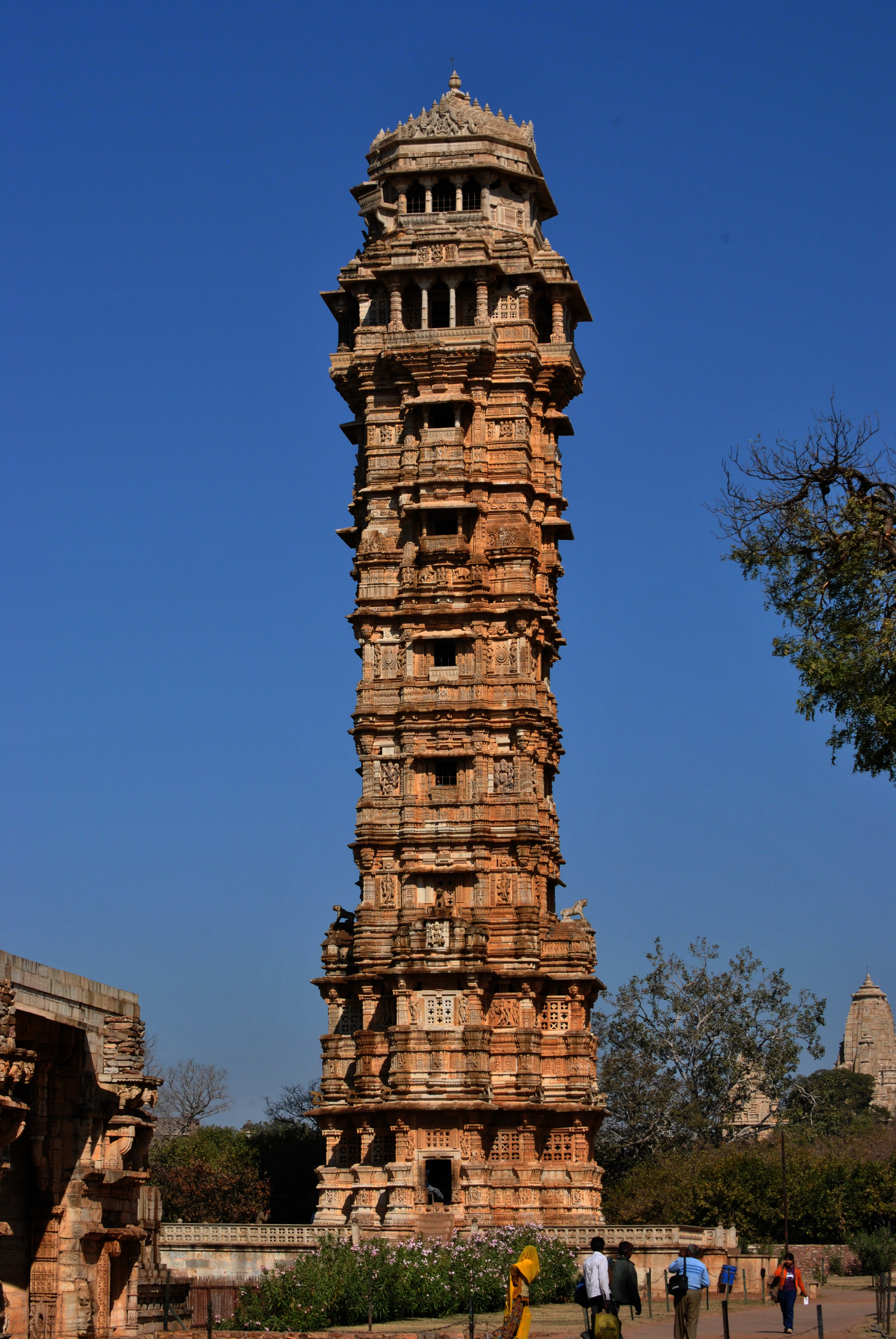 This tower in Chittor, Rajasthan was build by Maharana Kumbha to commemorate his first victory over Malwa Sultan Mehmood Khilji in AD1457.